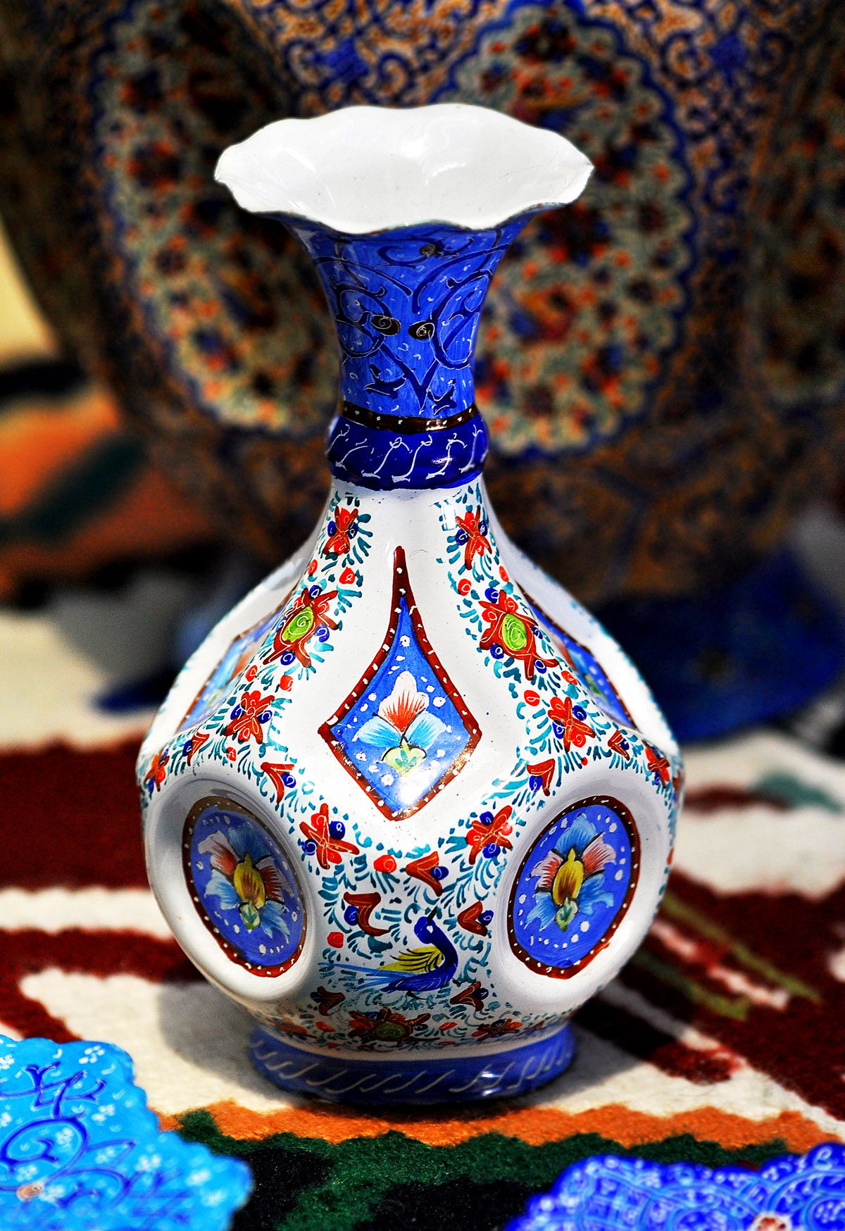 Iranian handicraft